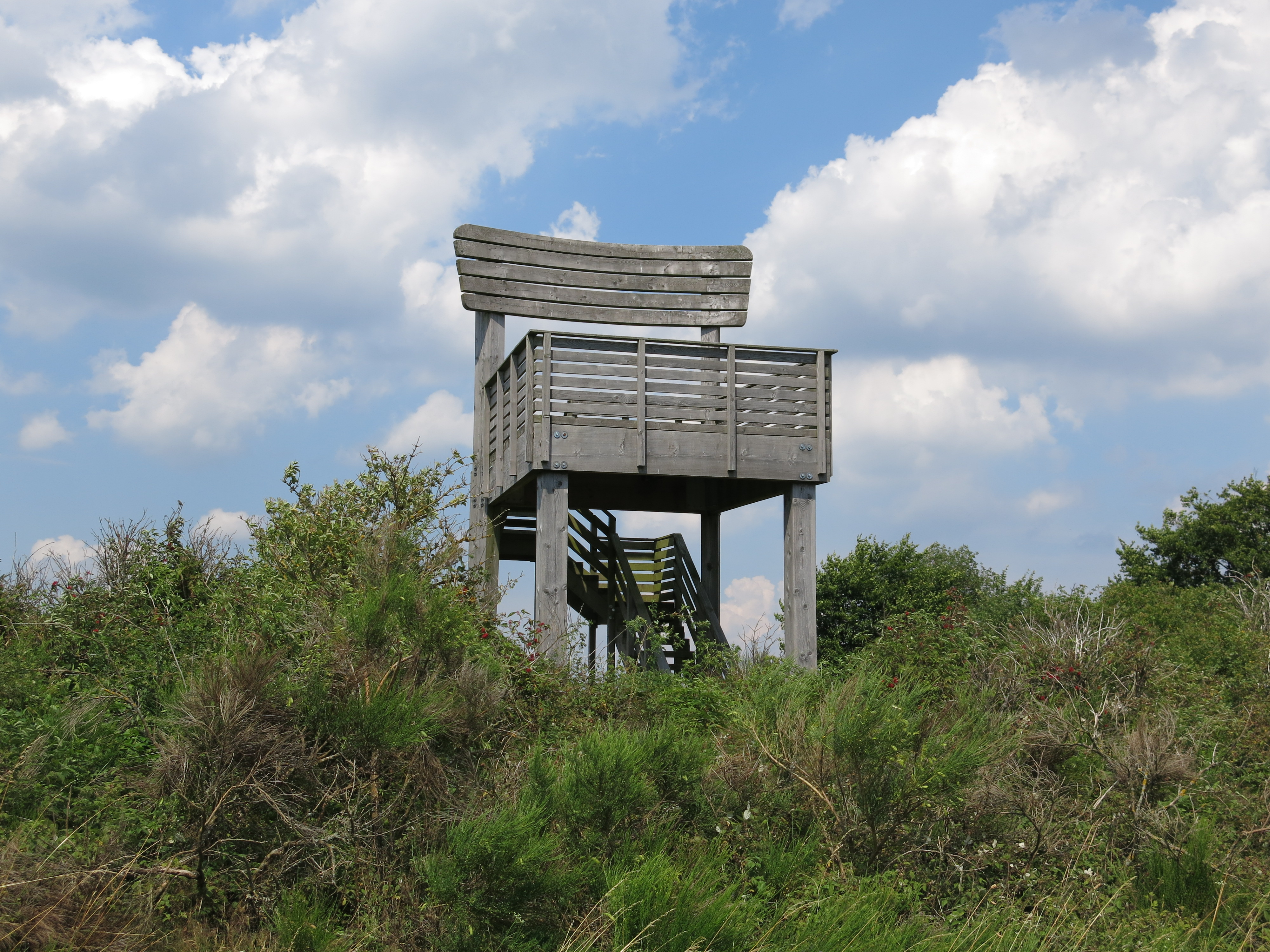 Viewpoint Sauerland-Stabil-Stuhl near Hallenberg